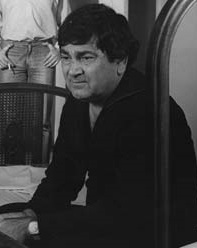 Mario Sánchez- actor argentino